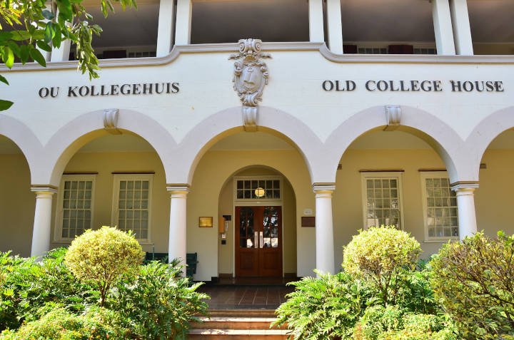 Entrance of Old College House building at University of Pretoria Hatfield Campus